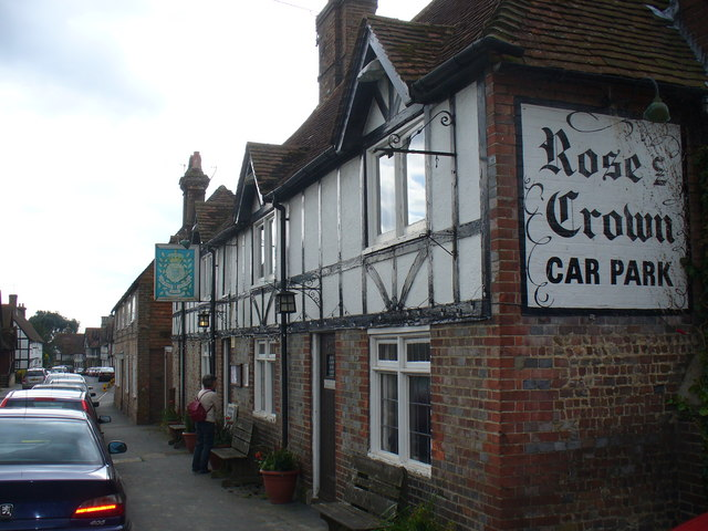 Rose and Crown, Fletching Historic pub on the west side of the village's High Street.